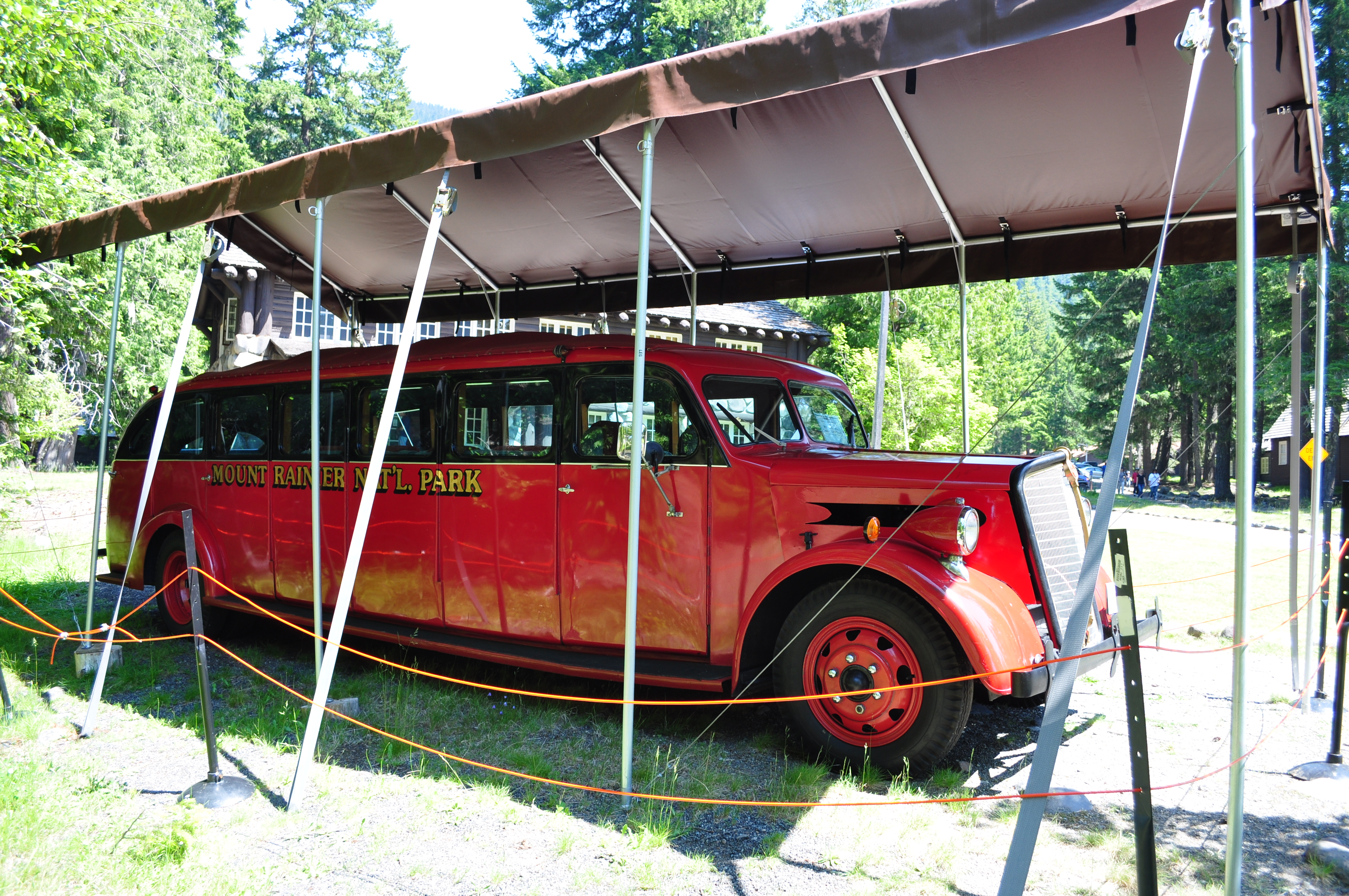 1937 Kenworth touring bus, on display in the Longmire Historic District, Mount Rainier National Park, Washington State, U.S. This was one of five buses that carried tourists from Seattle's Olympic Hotel and Tacoma's Winthrop Hotel to Mount Rainier from 1937 to 1962.